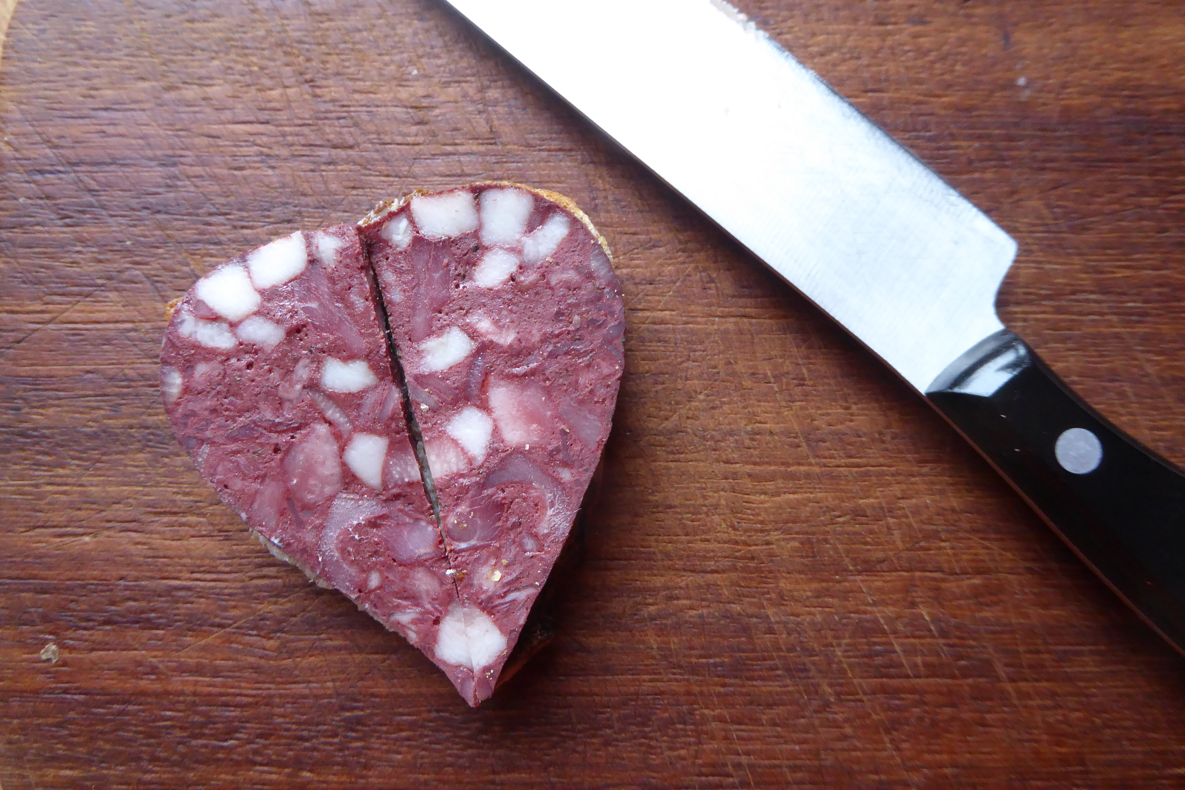 Heart of Blutwurst